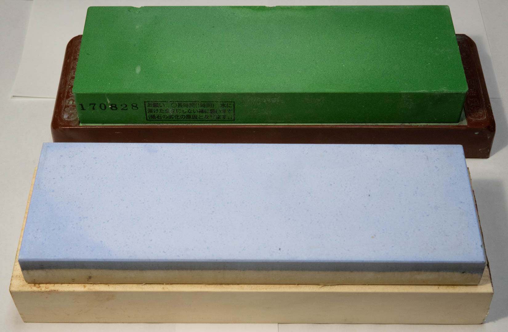 Examples of sharpening stones by cement method